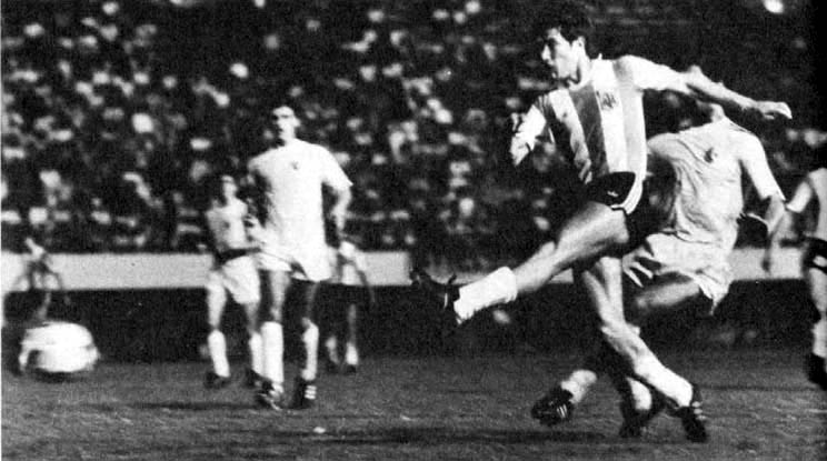 Argentina scoring v Algeria